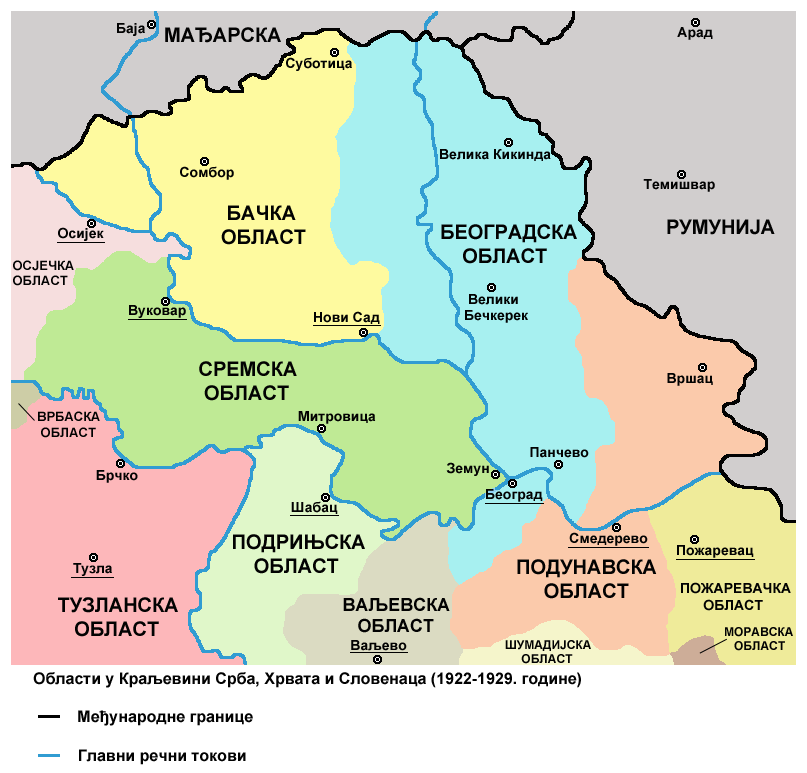 Oblasts in the Kingdom of Serbs, Croats and Slovenes (in Vojvodina region), 1922-1929.